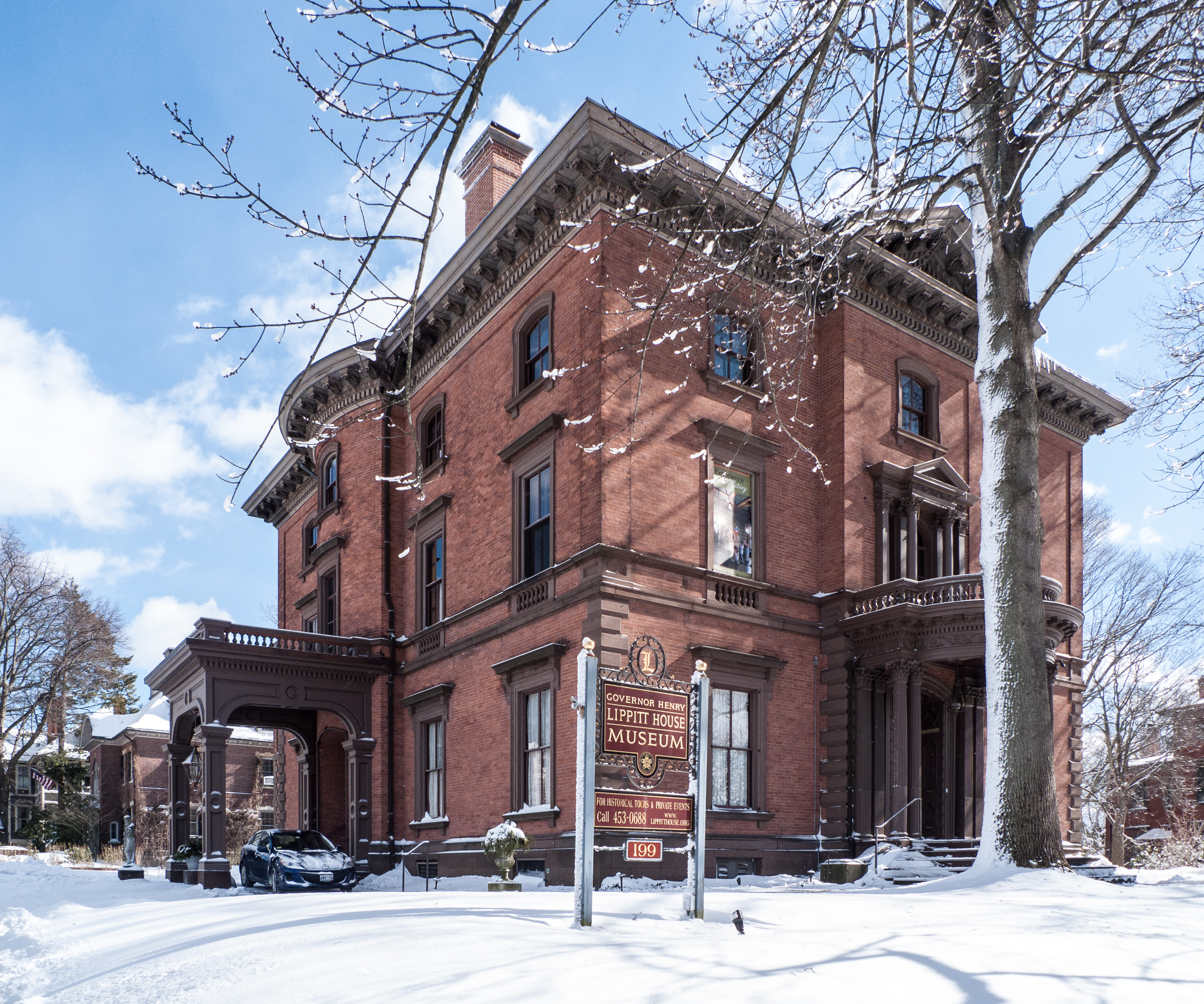 Governor Henry Lippitt House Museum in snow. February 2017.